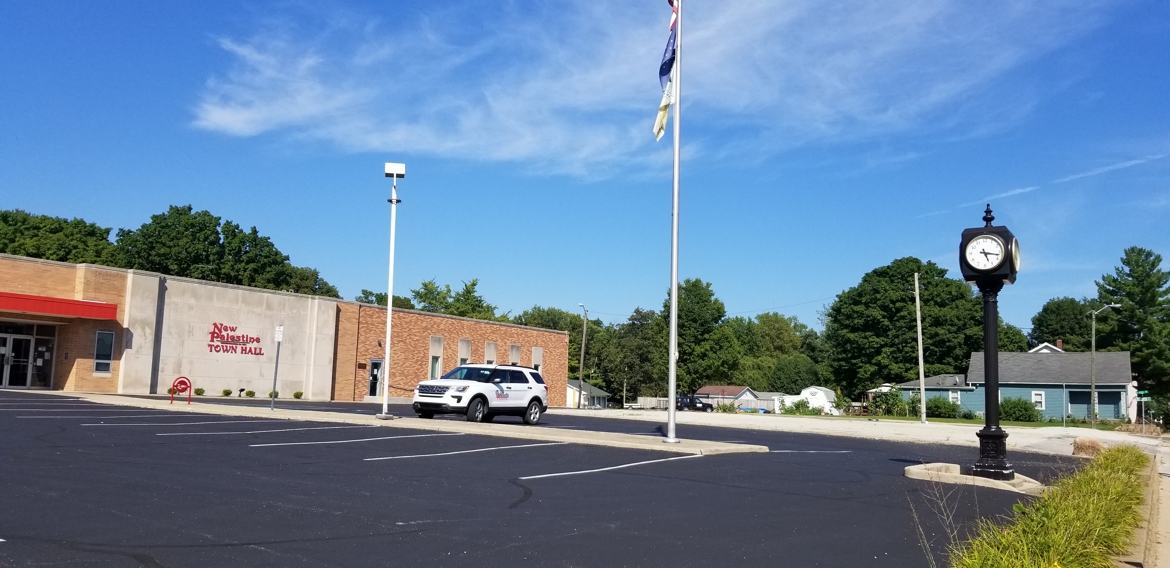 New Palestine, Indiana town hall